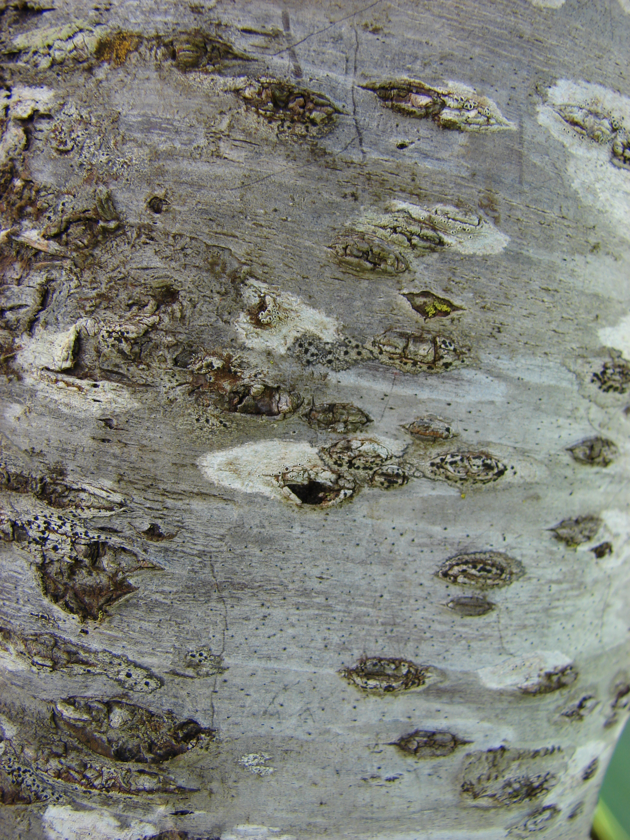 Prunus persica (bark). Location: Maui, Makawao